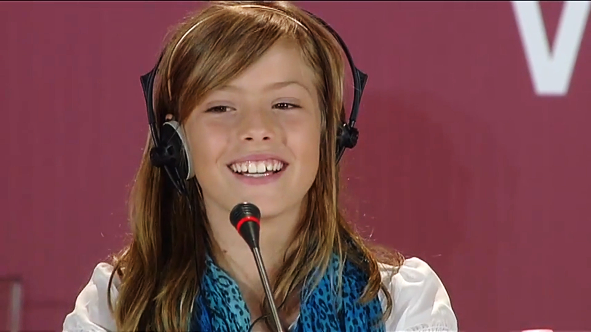 Claudia Vega at the Venice Film Festival. Date 2011